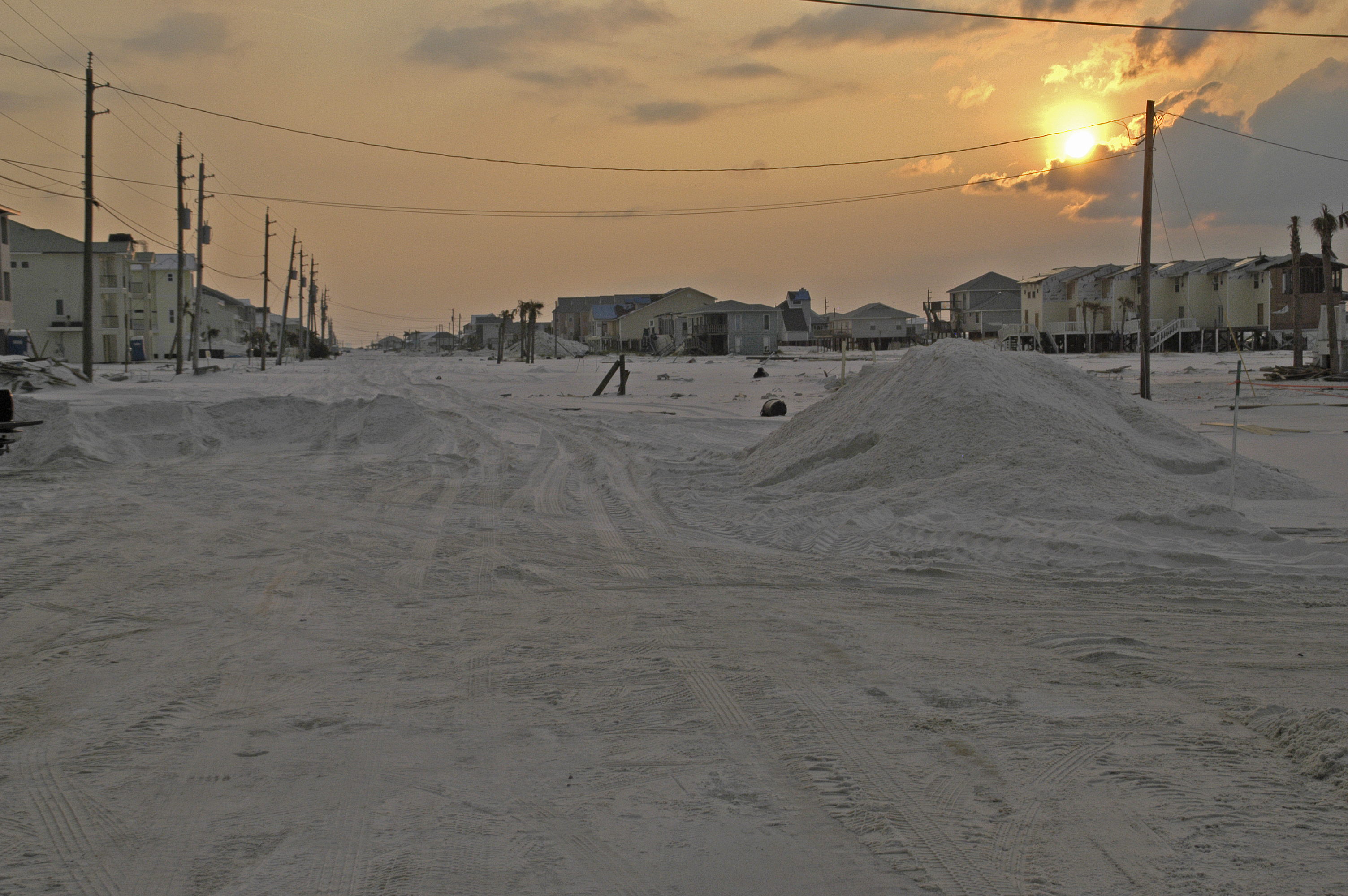 Navarre Beach, Escambia County, Fla. 8-31-05 -- Hurricane Katrina covered roads with many feet of sand for miles. Here a 20 mile streach is closed. Many residents can not get access to their homes. Many homes and roads are flooded or damaged and residents are displaced. MARVIN NAUMAN/FEMA photo.